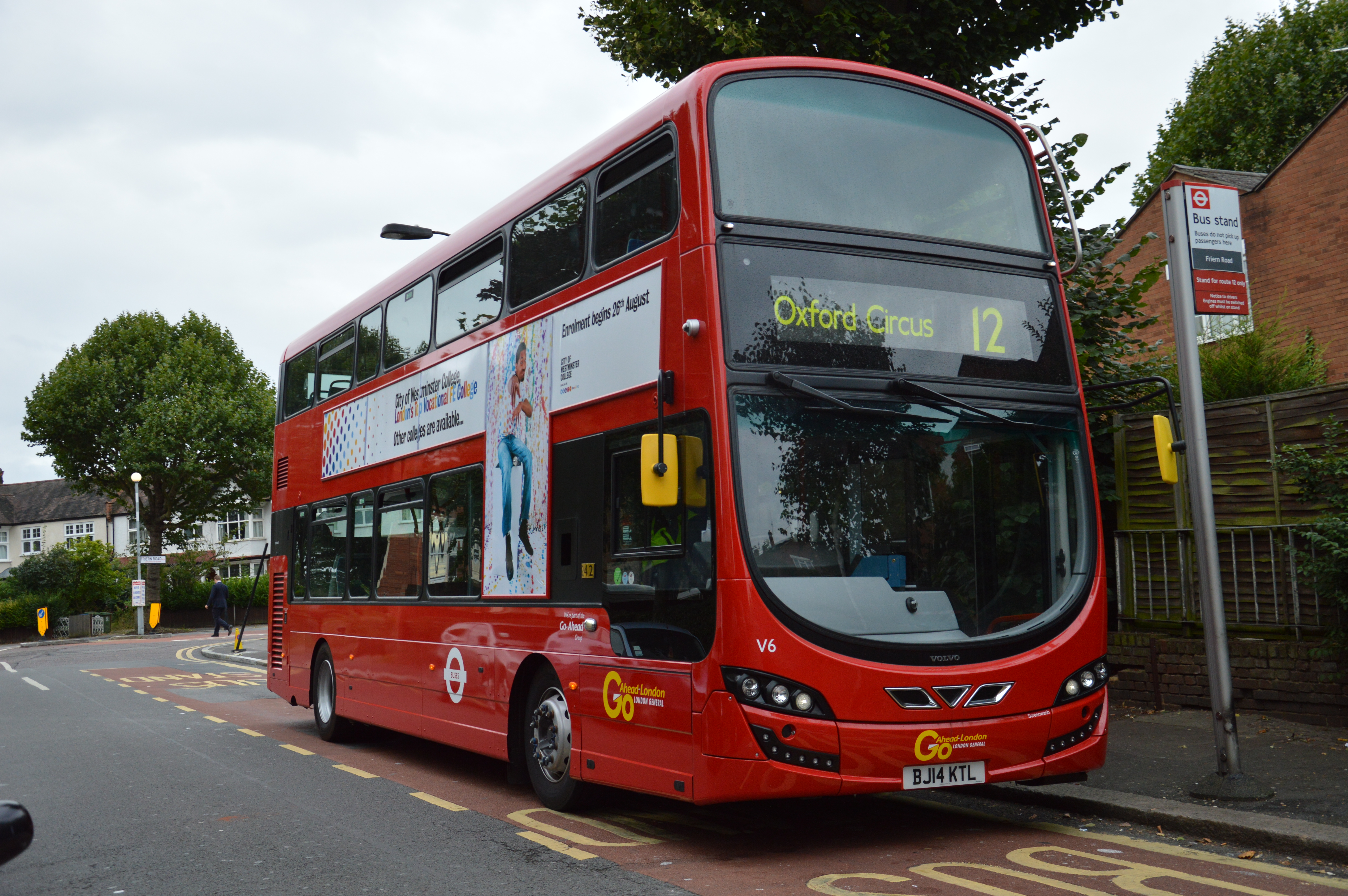 Go Ahead Volvo B5TL demonstrator